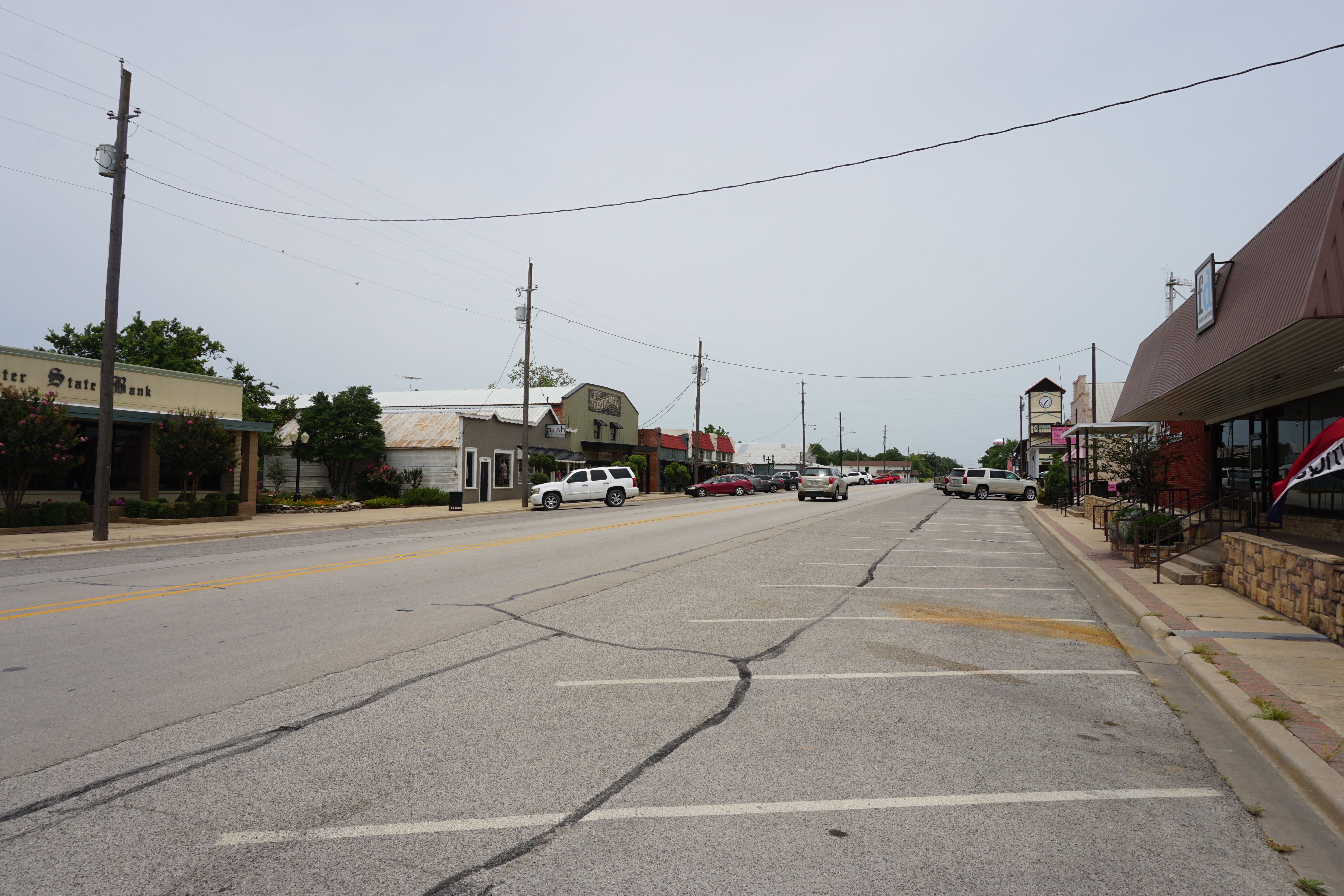 North Main Street in Muenster, Texas (United States).